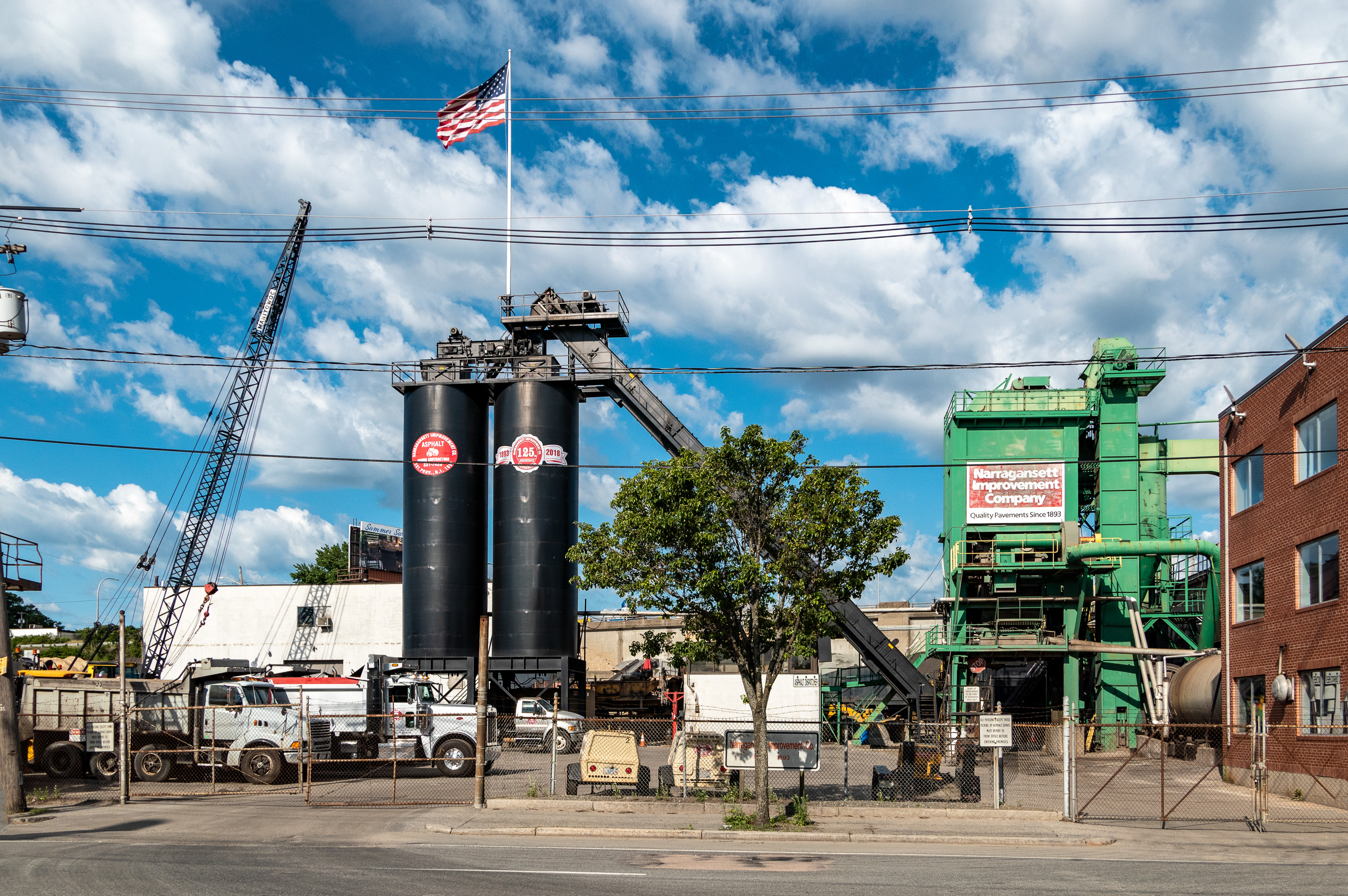 Narragansett Improvement Company, an asphalt plant on Allens Avenue, just south of Public Street. "Quality pavements since 1893"